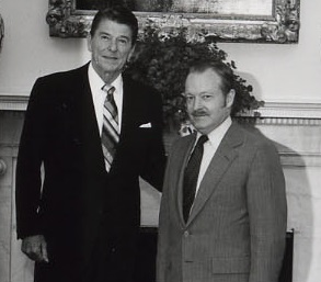 Ronald Reagan andErnest Preeg in 1981 in Oval Office